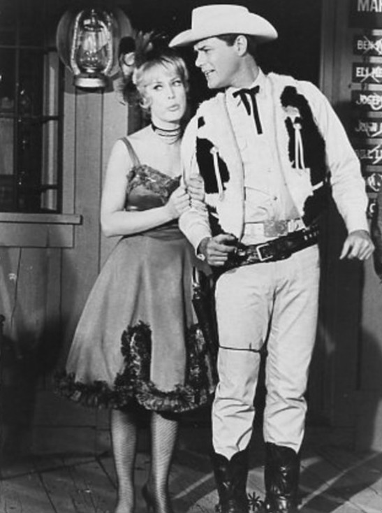 Publicity photo of Barbara Eden and Larry Hagman from I Dream of Jeannie "Fastest Gun in the East" 1966 episode. When Tony wishes for the days of the Old West, Jeannie grants his wish by making him sheriff of a small Western town.